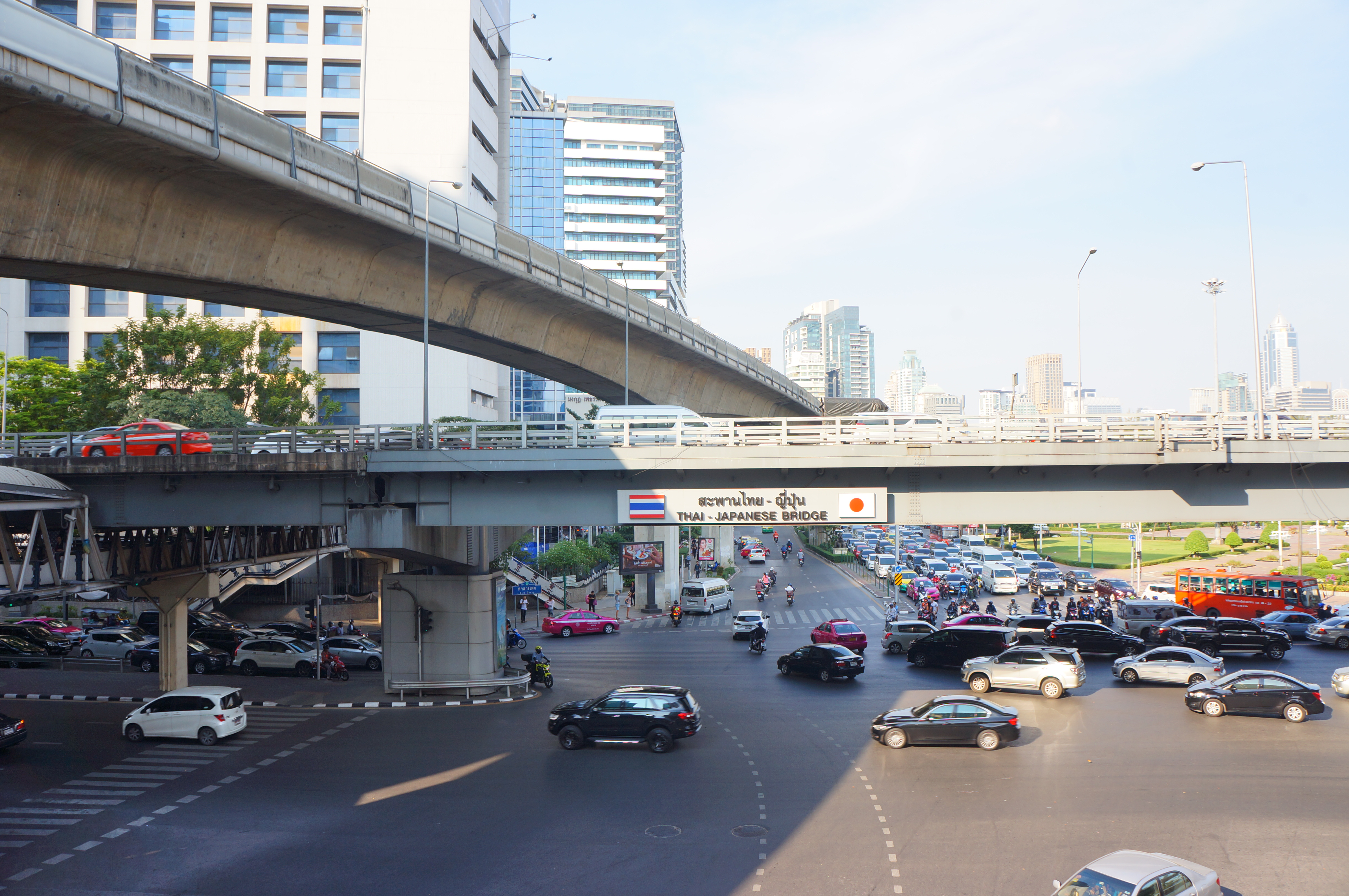 201701 Thai-Japanese Friendship Bridge